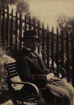 Carl Frederik Tietgen (1829-1901), Danish businessman and industrialist